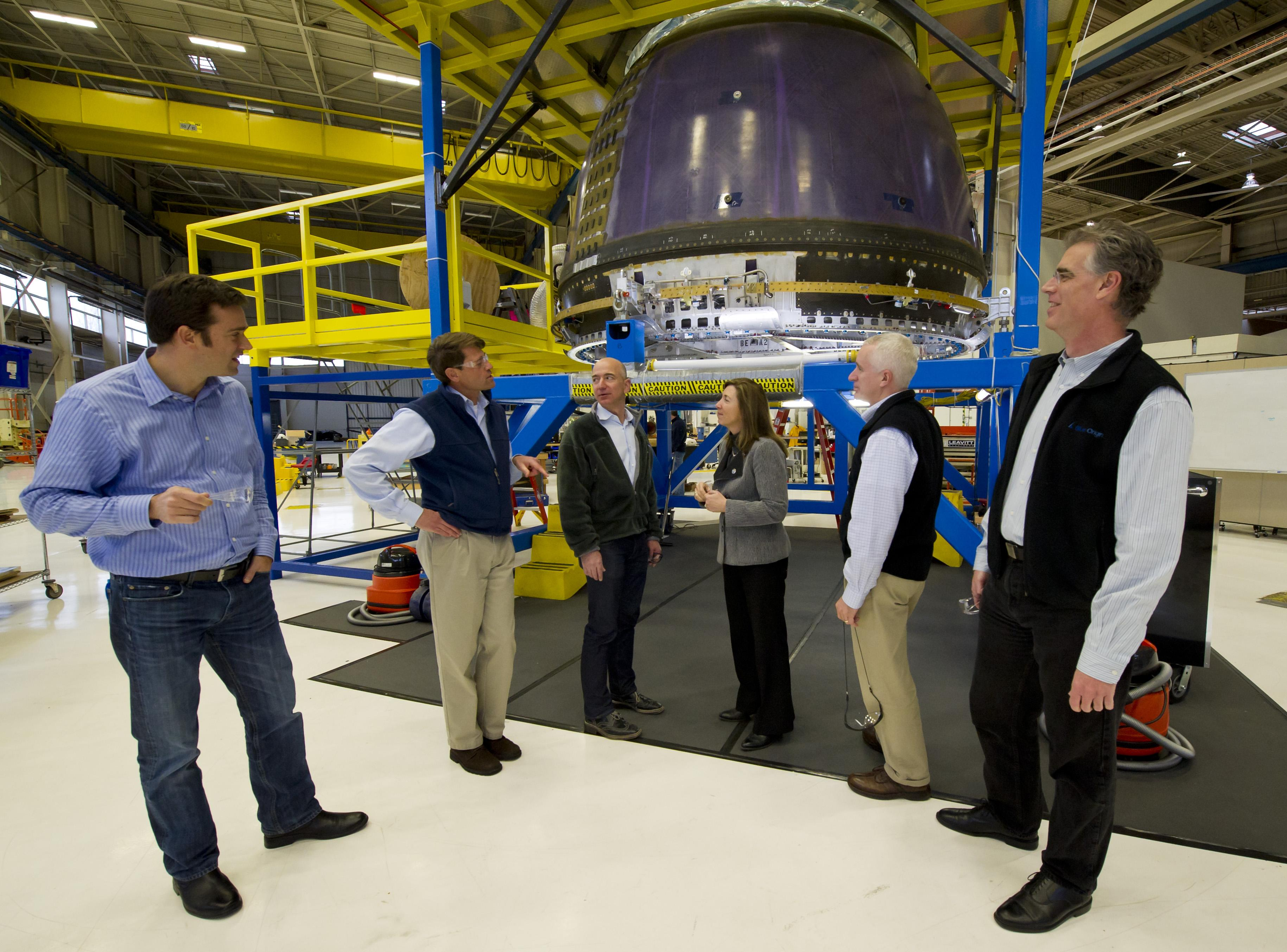 NASA Deputy Administrator Lori Garver, fourth from left meets Blue Origin Founder Jeff Bezos, third from left, next to Blue Origin's crew capsule along with other Blue Origin team members, Bretton Alexander, left, Jeff Ashby, second from left, Rob Meyerson, fifth from left, and Robert Millman at the company's headquarters in Kent, Wash. Composite pressure vessel in background.